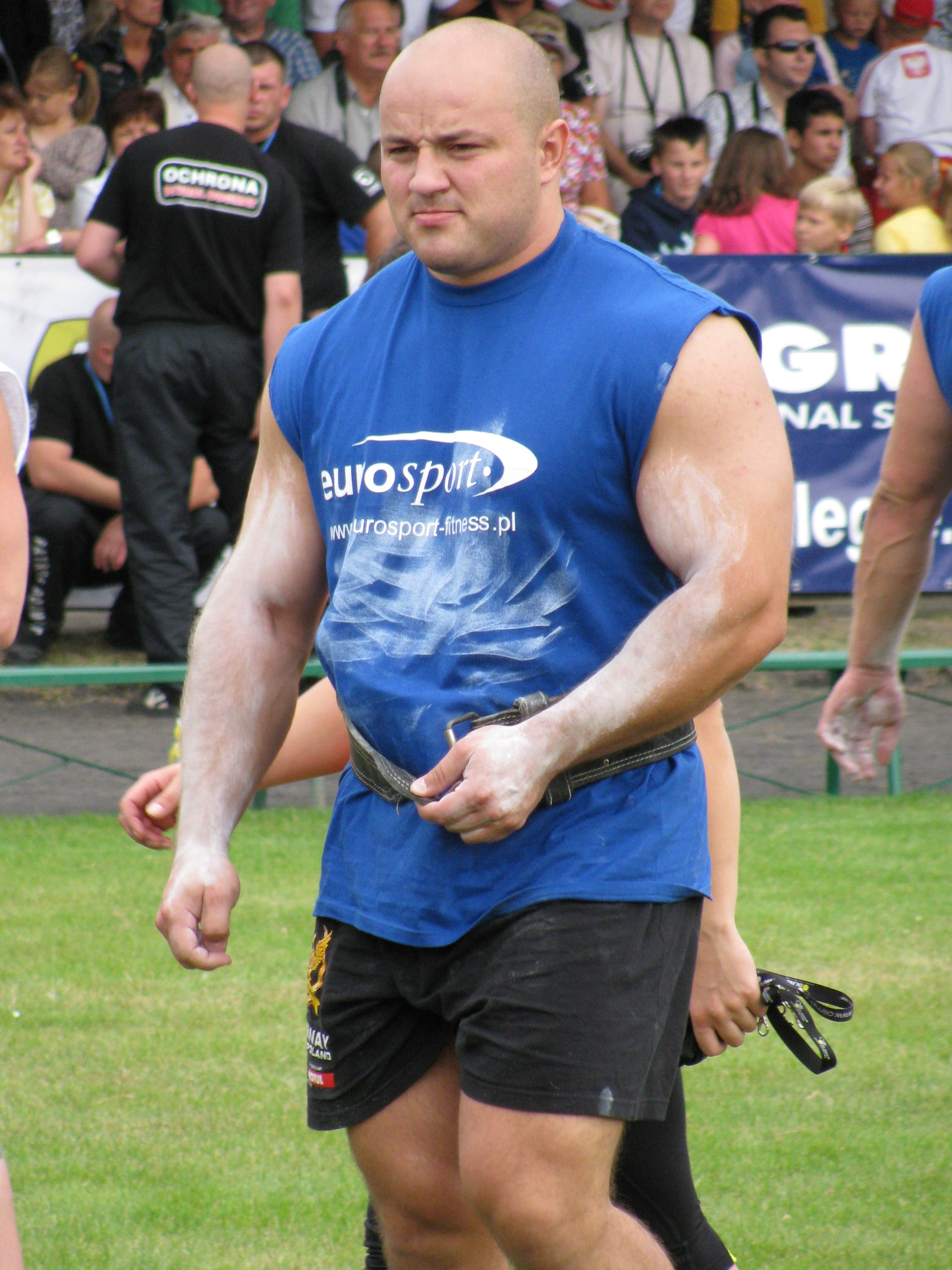 Bartlomiej Bak - a strength athlete from Poland